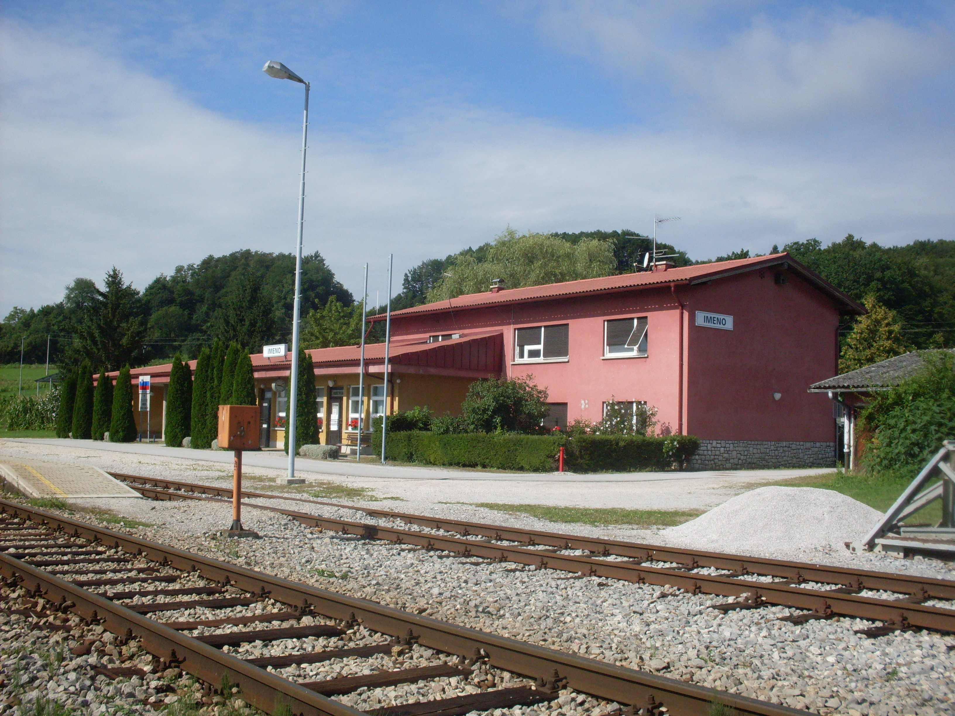 Train station in Imeno